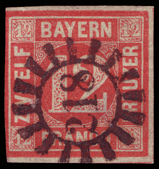 July 1858 stamp of Bavaria with closed postmark of a millwheel 218 Graphics by Haseney Ausgabepreis: 12 Kreuzer First Day of Issue / Erstausgabetag: 1. Juli 1858 Michel-Katalog-Nr: 6 (Altdeutschland (Bayern))